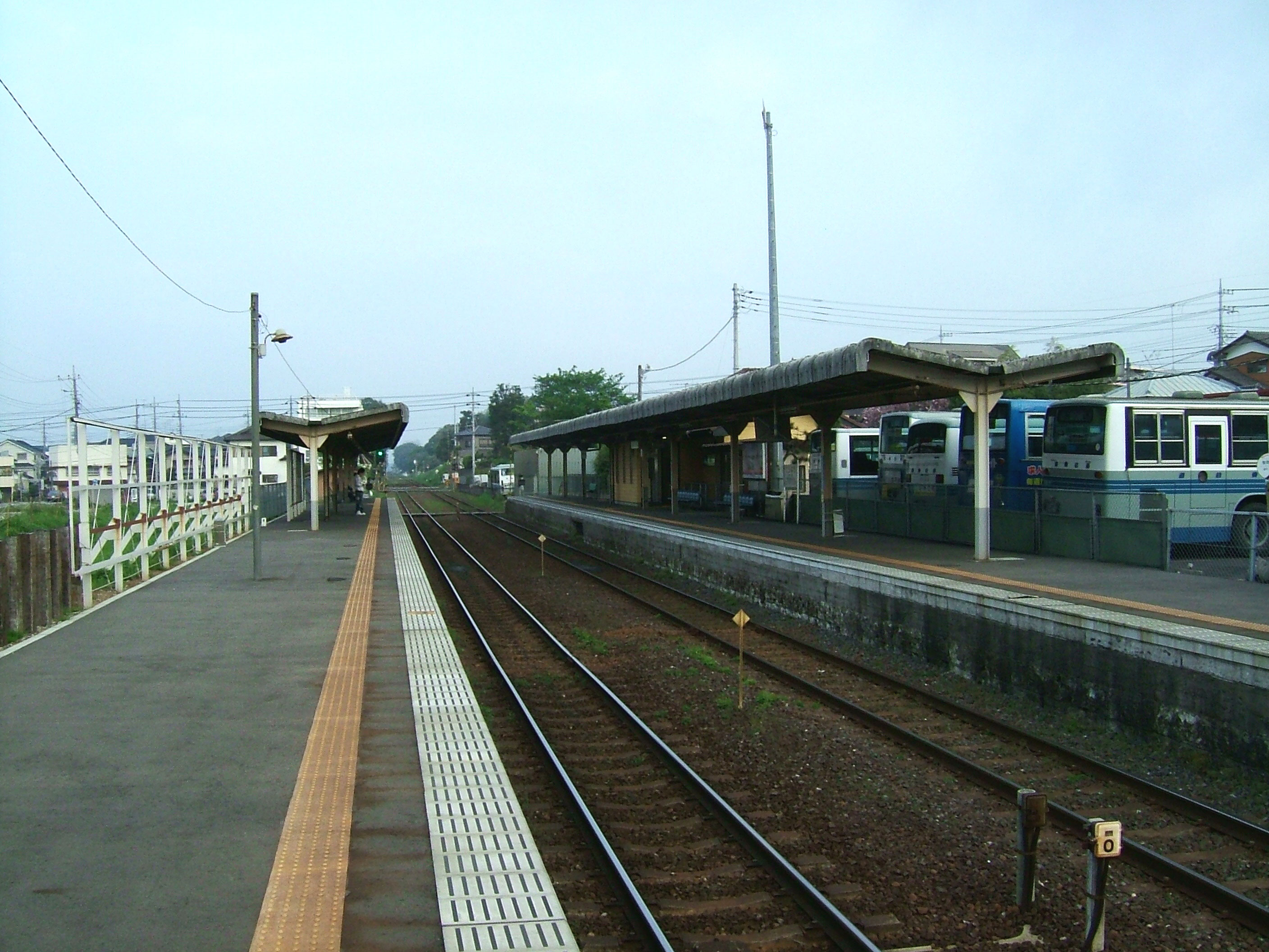 Terahara Station platform (Kanto Railway Jōsō Line)